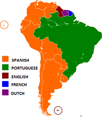 Languages of South America